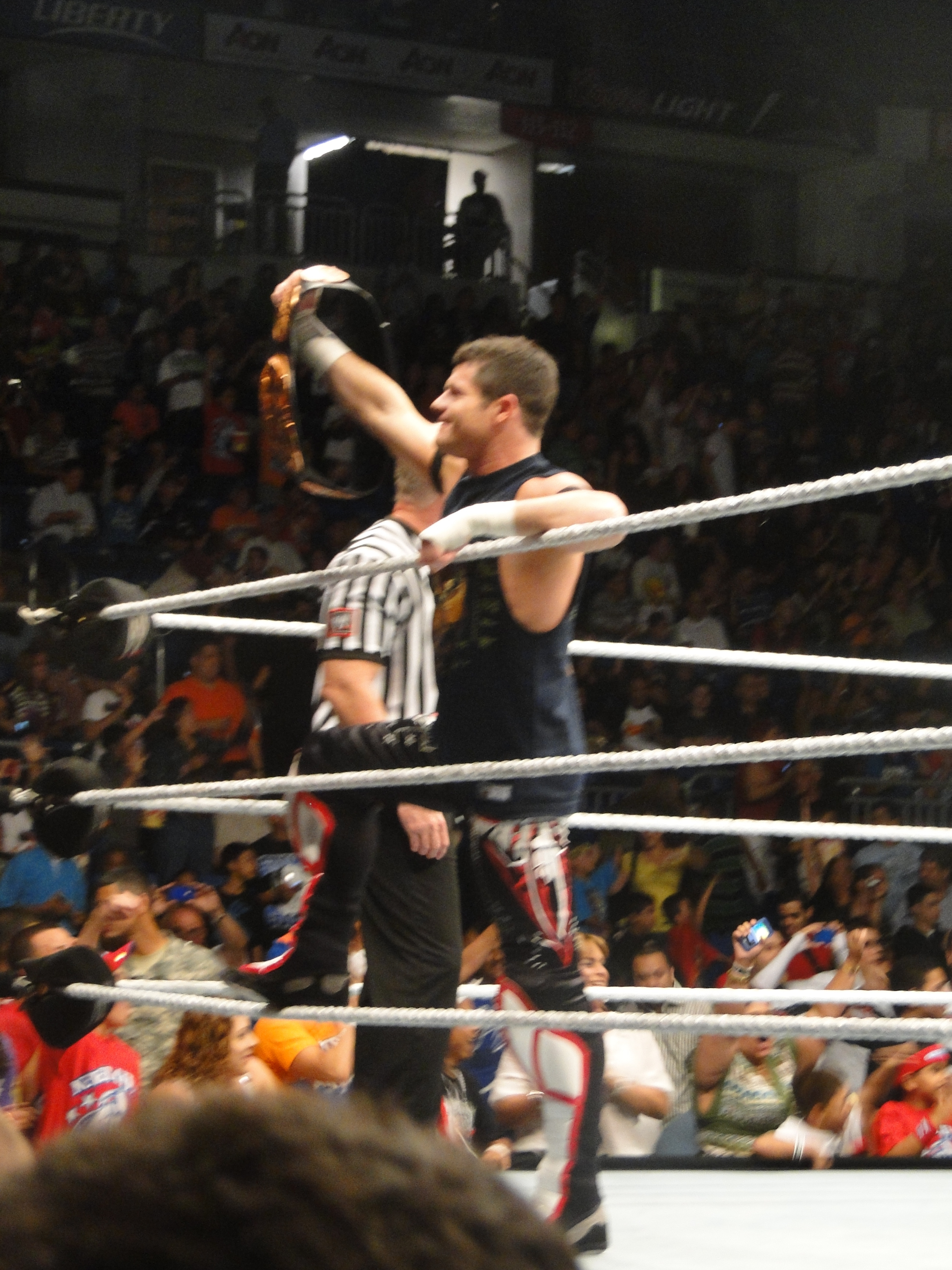 Evan Bourne with the WWE Tag Team Championship which he held with Kofi Kingston.